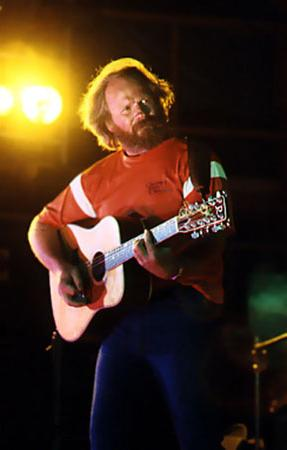 Barry McGuire at the 3 day Music & Alternatives festival, New Zealand 1979